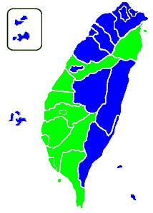 Voting preferences in the 2004 Taiwan general election, using User:試吃那人's map as a base, released under the GFDL.